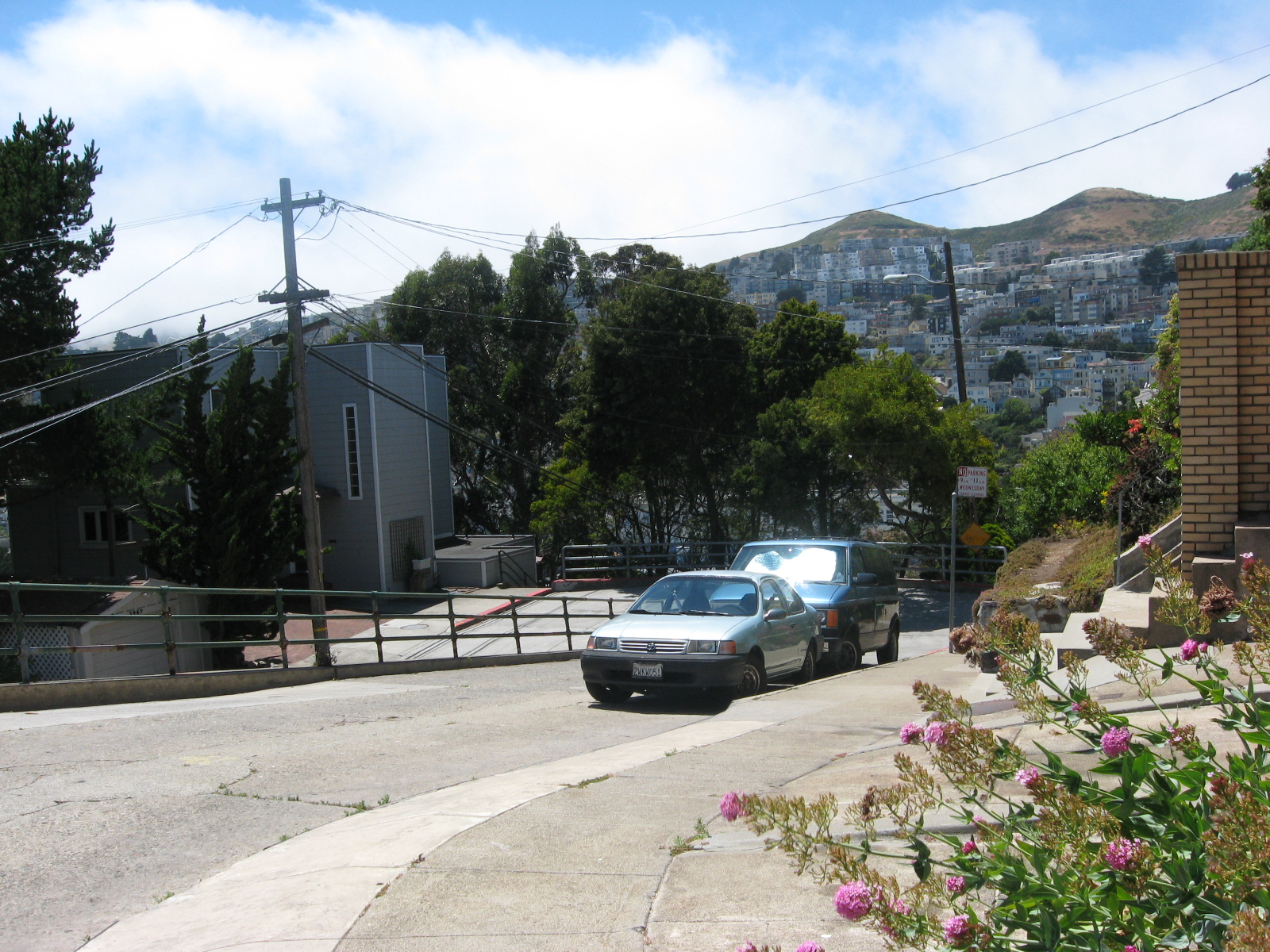 22nd Street switchback at Collingwood St., in San Francisco's Noe Valley neighborhood. To the right are steps to Diamond and 22nd Street. Original Generation date was June 27, 2007.